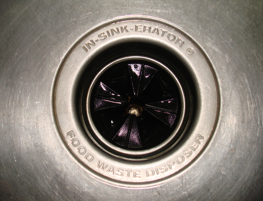 kitchen drain, with in-sink-erator